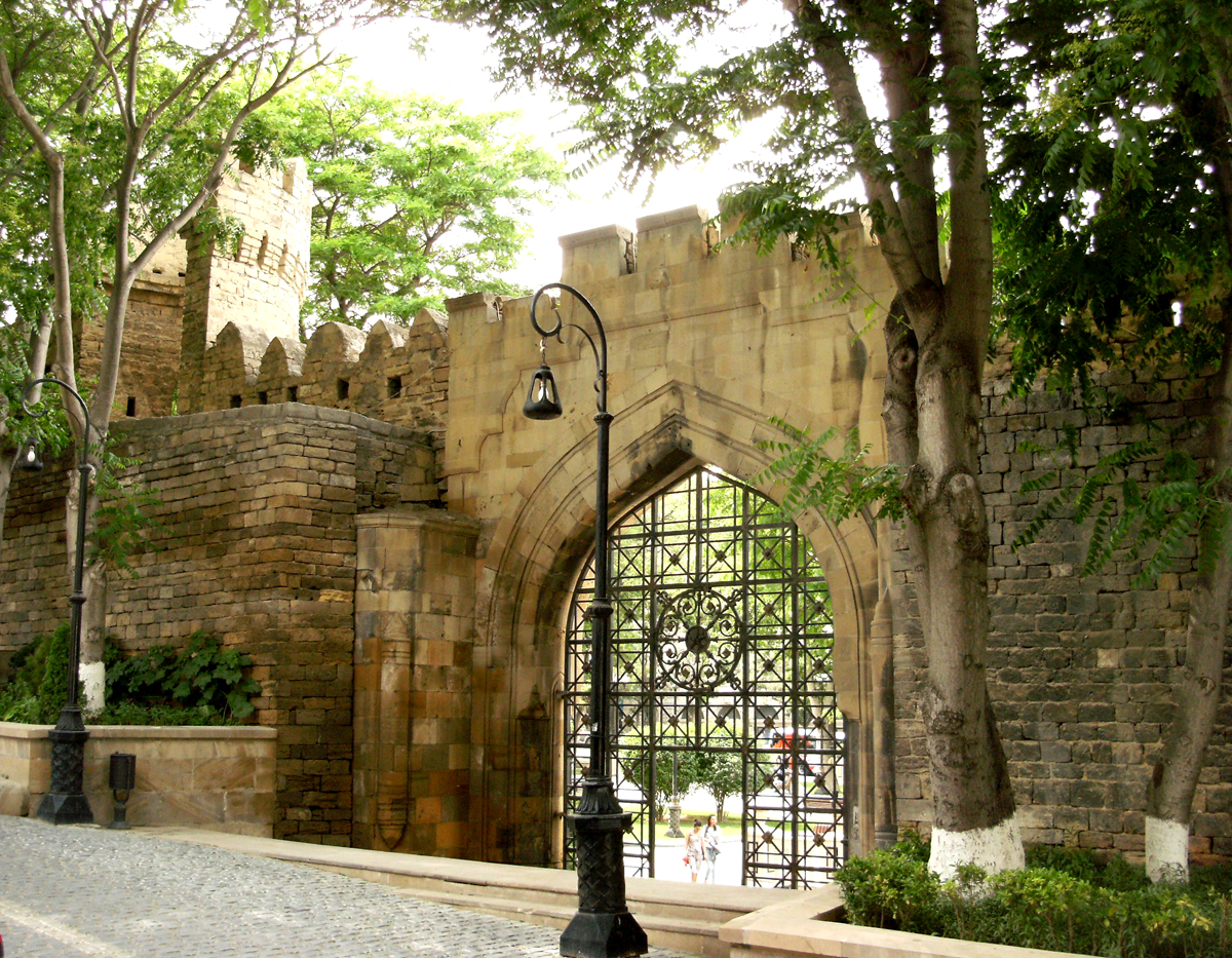 icheri sheher's gate